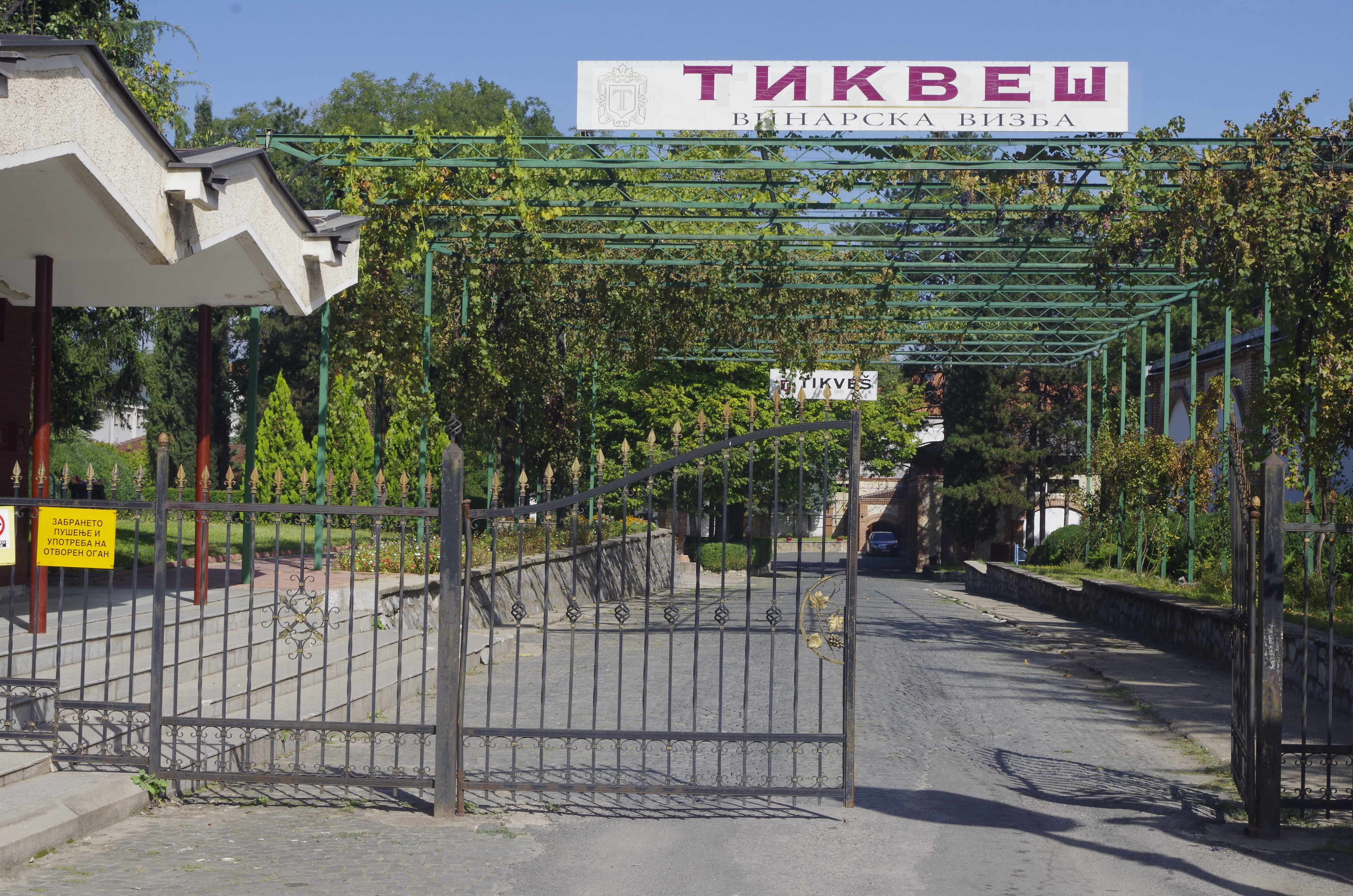 Tikvesh Winary